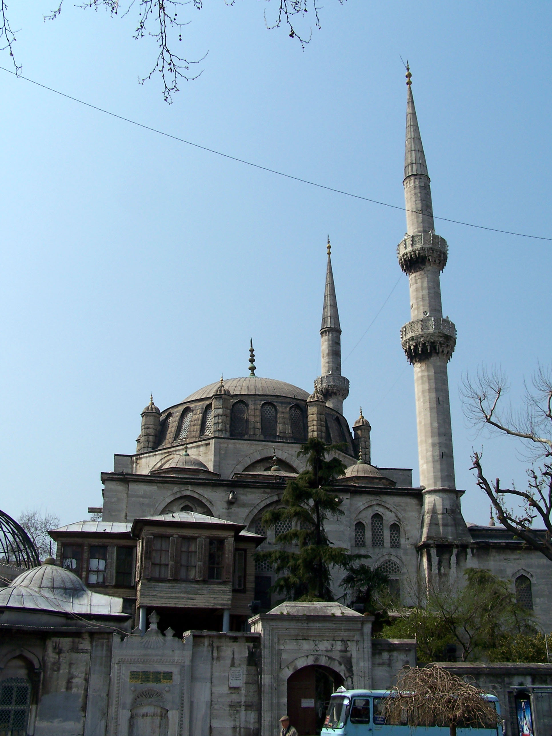 Yeni Valide Camii (Yeni Valide Mosque)—Üsküdar, Istanbul, Turkey.